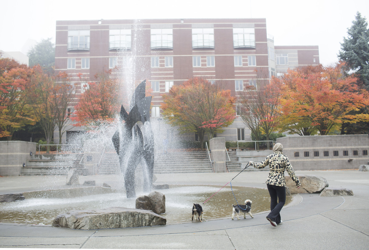 Seattle University Fountain